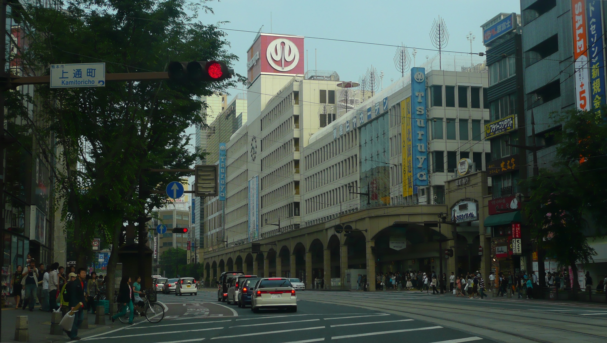 Toricho Suji Street - Kumamoto Prefectural Road No.28 (Central Kumamoto City, Japan)